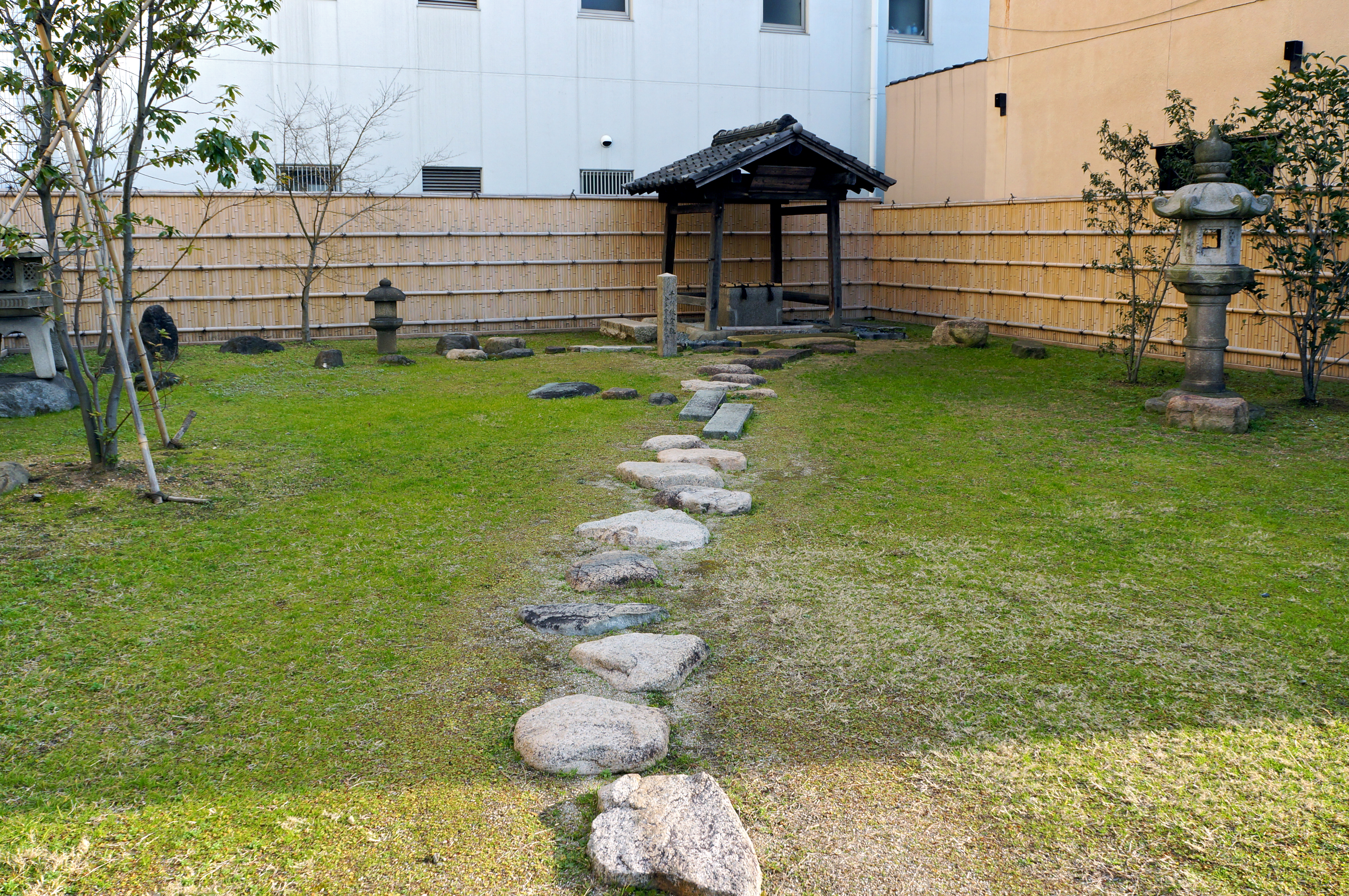 The Site of Sen-no Rikyu's Residence in Sakai, Osaka prefecture, Japan.